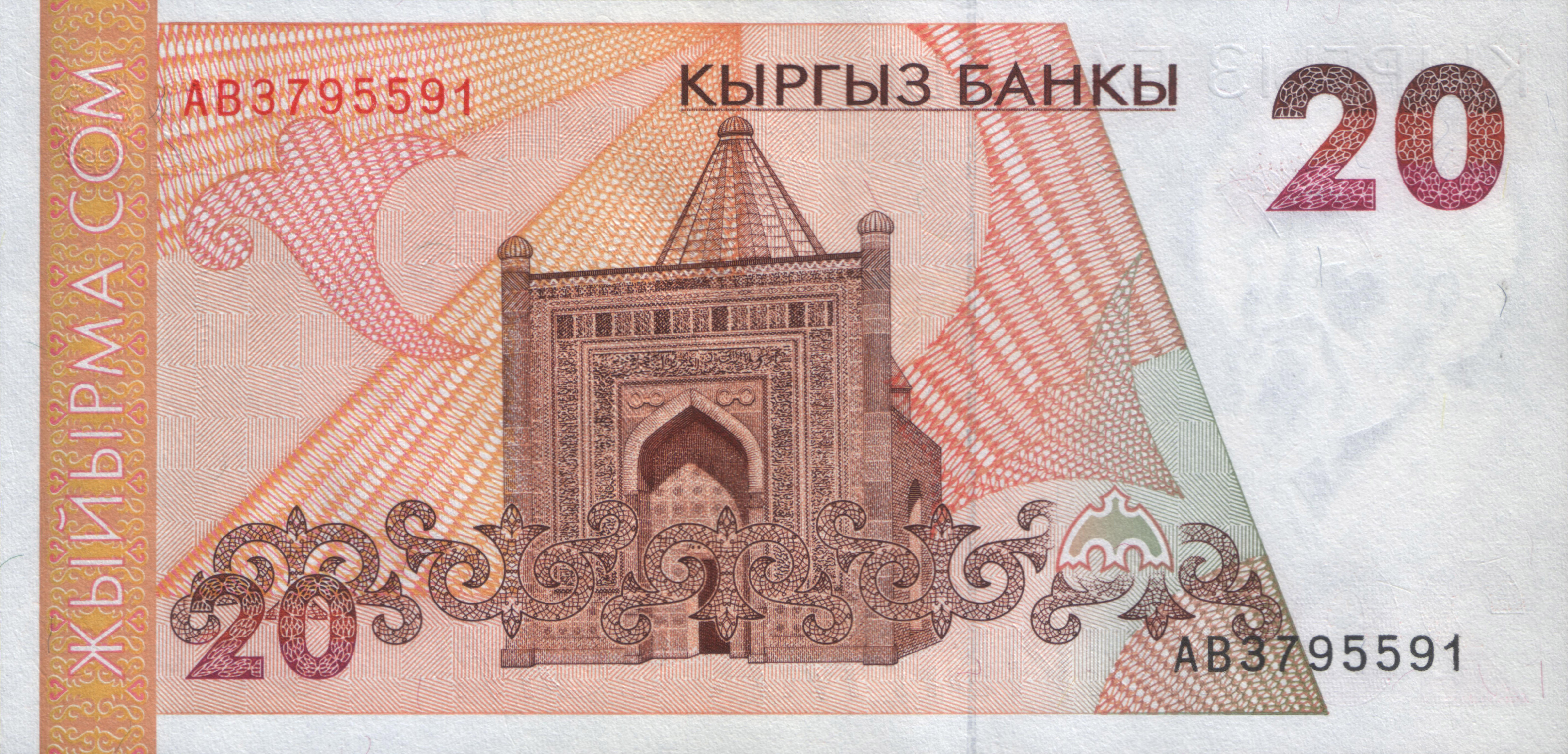 20 som of Kyrgyzstan (1994)